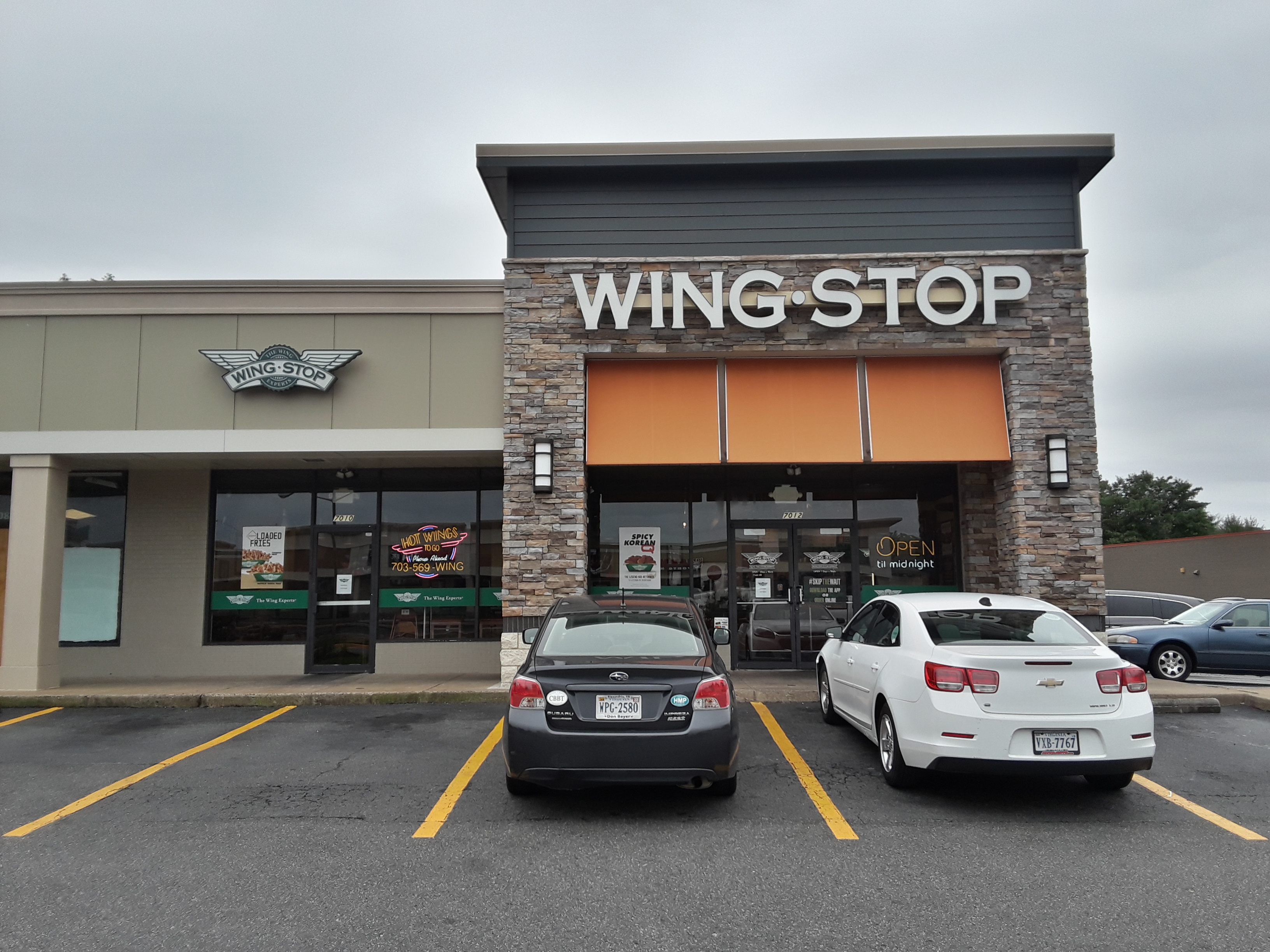 Brookfield Plaza, Springfield, Virginia